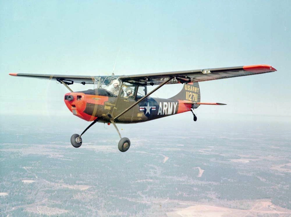 A U.S. Army Cessna O-1A Bird Dog (s/n 51-12711) in flight.